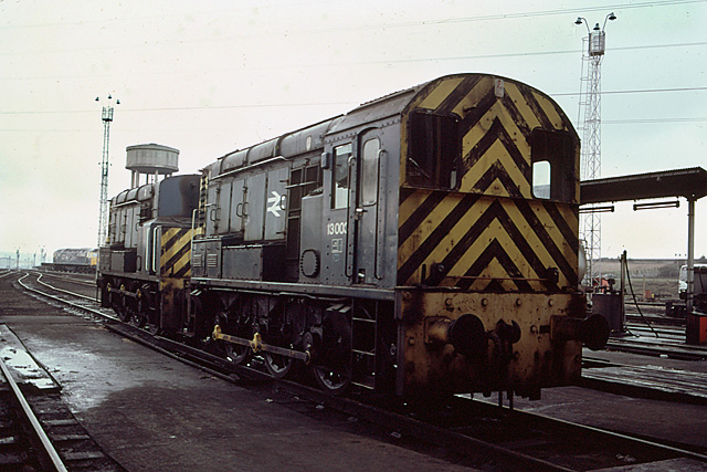 Hump Shunter Tinsley was provided with 3 class 13 shunters to push the trains of wagons being sorted over the hump. These were two class 08 shunters permanently coupled together with the cab of the front loco removed.